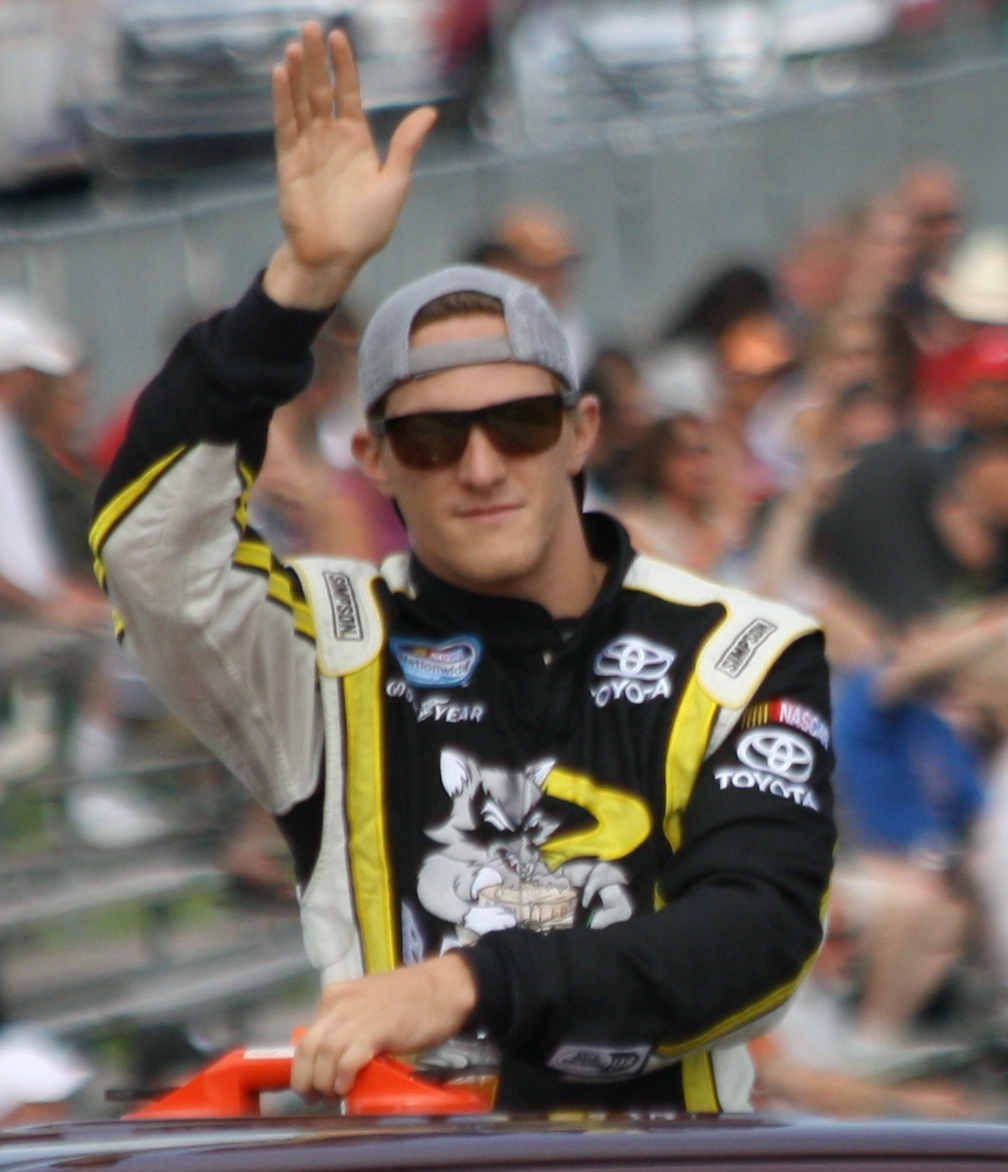 NASCAR driver Parker Kligerman at the 2013 Johnsonville Sausage 200 Nationwide Series race at Road America.